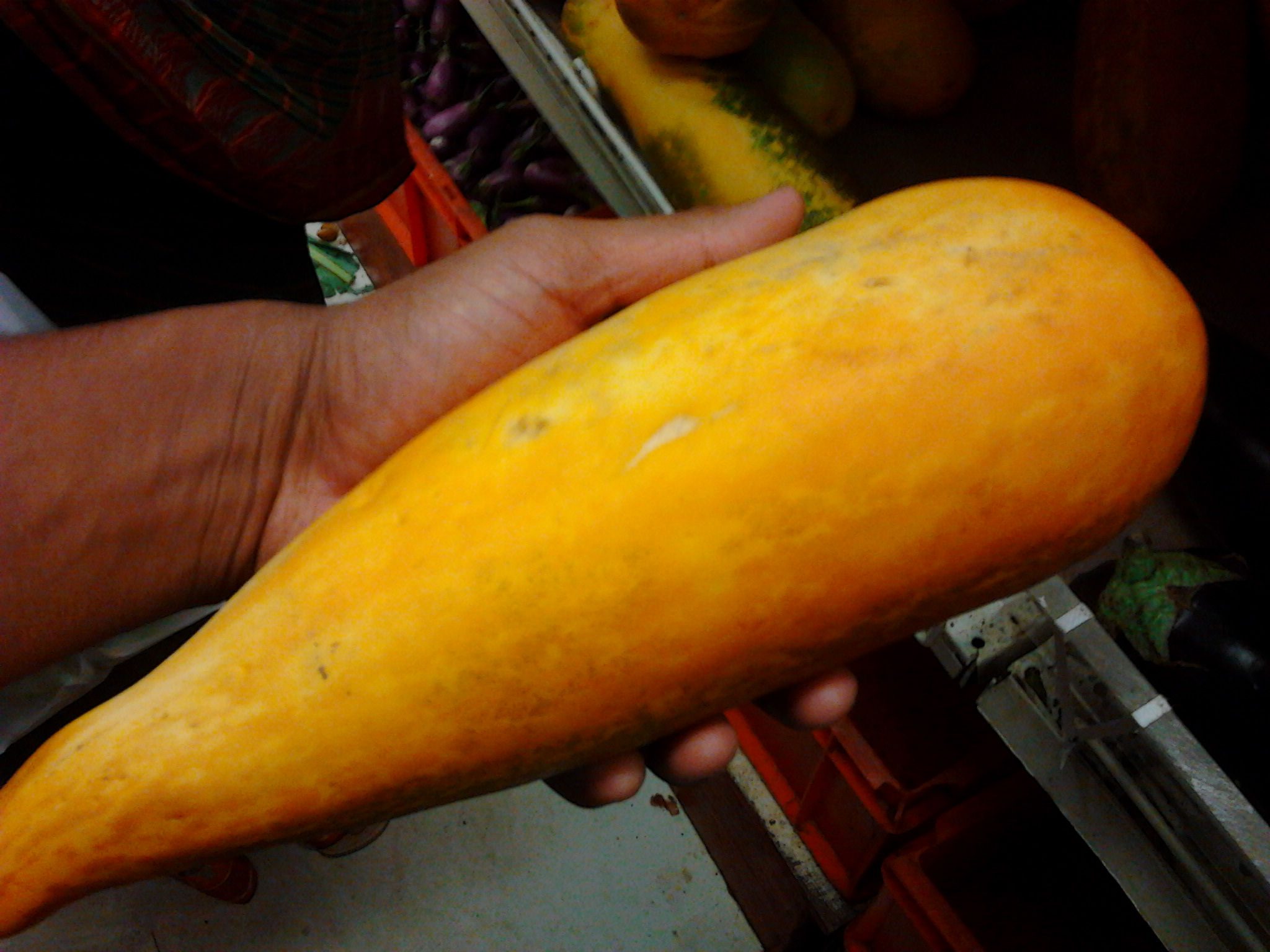 Photoed using Samsung Wave 525.